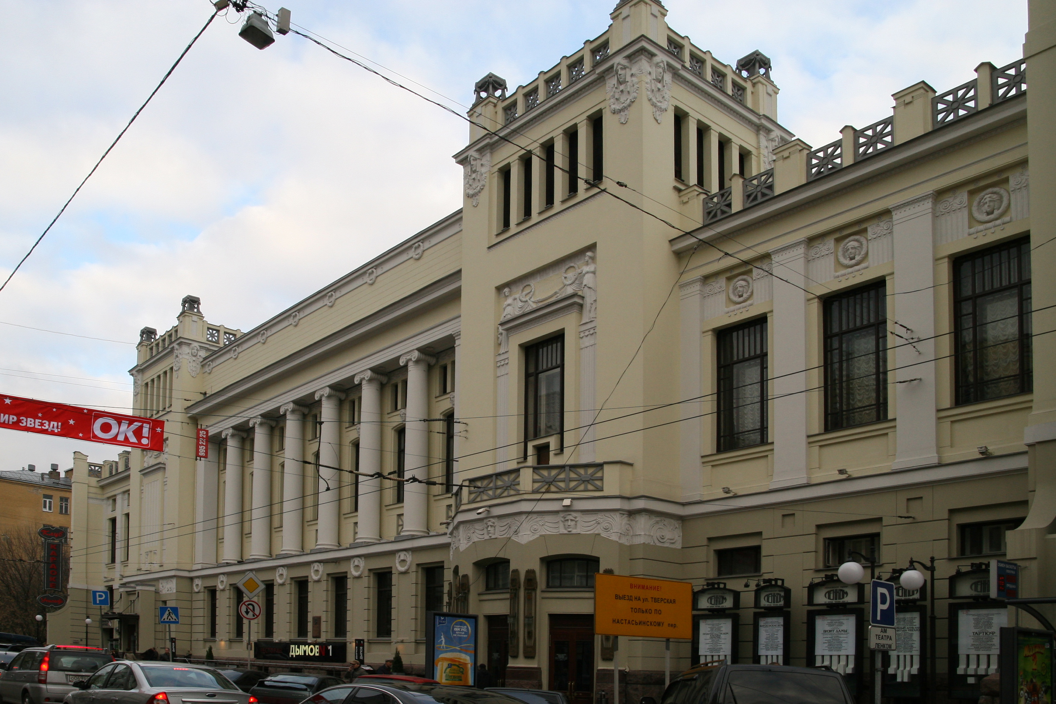 Lenkom theater Moscow